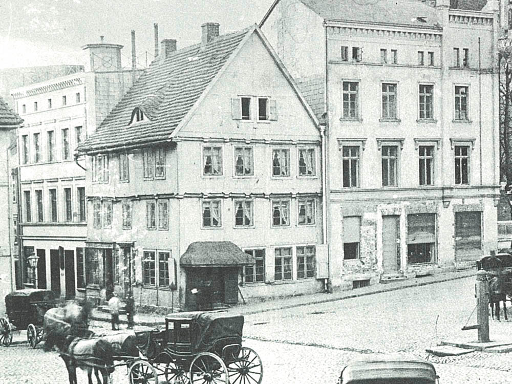 Earliest known photography of Schwerin (status as of 2020), situated in Stadtarchiv Schwerin. Buildings are from right towards left: Am Markt 2 (same facades todays), at the corner the former building on former property Schmiedestr. 1 (todays belonging to Am Markt 2) with eyebrow dormer und Schmiedestr. 3 (same facades todays). Two carriages in the foreground, and a manual water pump